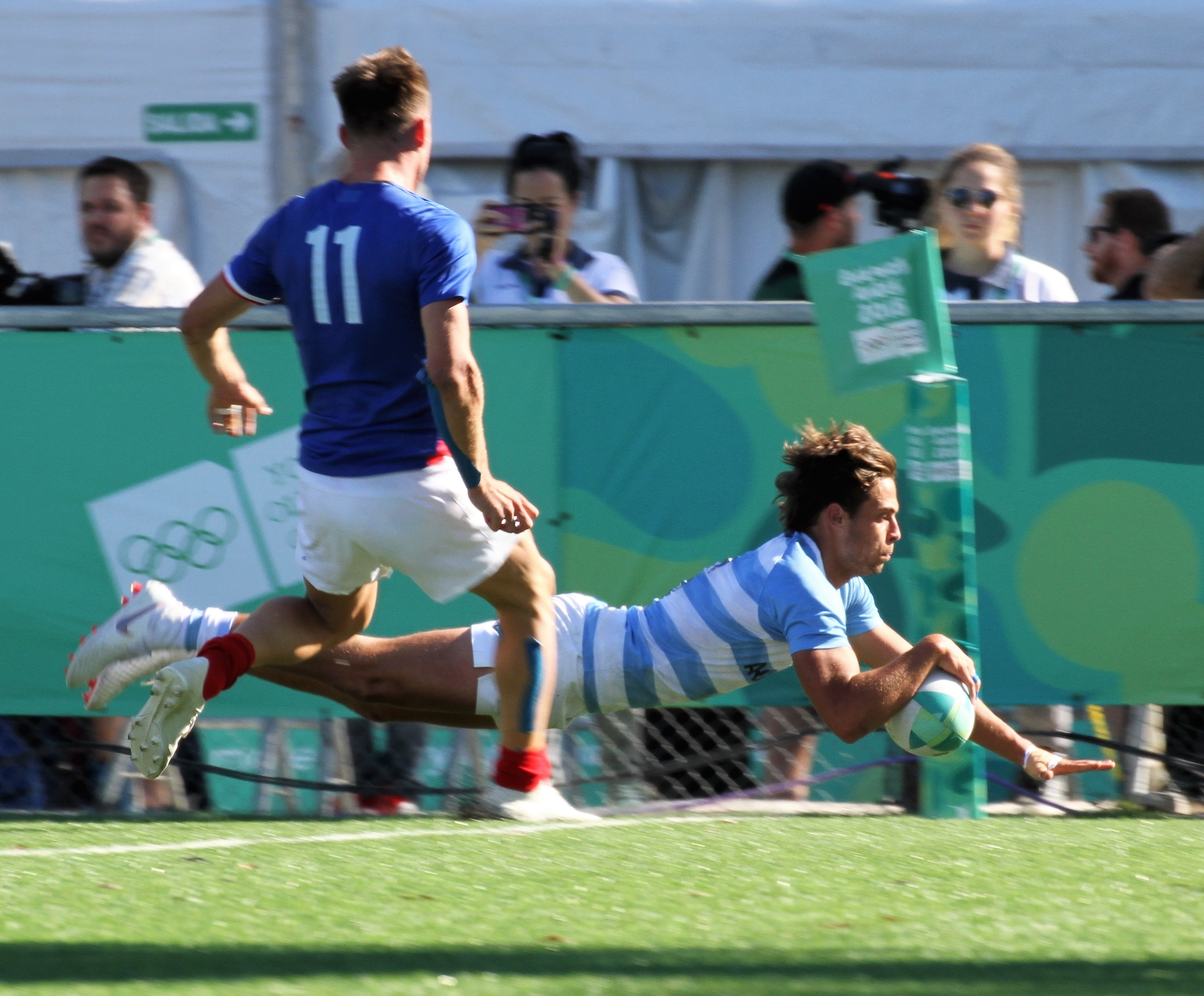 Rugby Sevens match between Argentina and France for the gold medal of the 2018 Summer Youth Olympics.